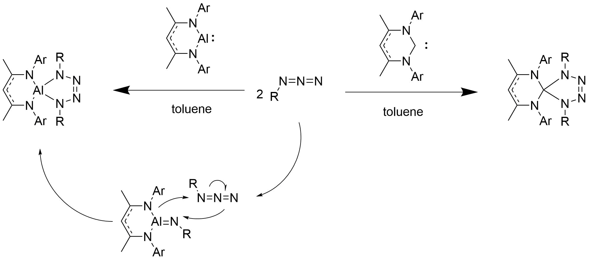 aluminum (I) is analagous to carbene